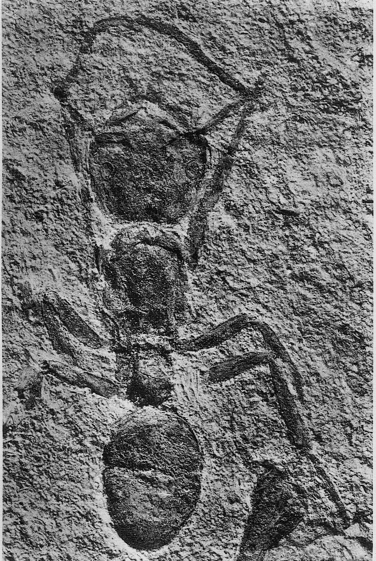 Original description "Plate 1. Fig. 1. Archiponera wheeleri, sp. nov, Florissant,Colorado. Obverse of holotype (☿). X8." Archiponera wheeleri holotype female worker Specimen 2876a, Museum of Comparative Zoology, Harvard University